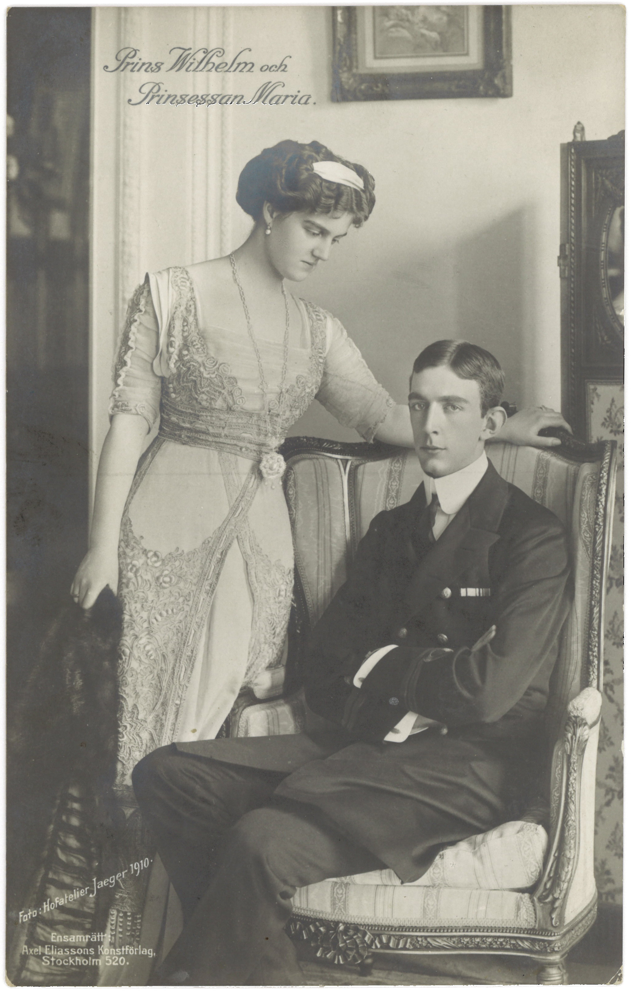 Prince William and Princess Mary (1910). Photograph: Hofatelier Jaeger 1910. Publisher: Axel Eliasson's Art Publishers, Stockholm Postcard postmarked Dec. 24, 1911.